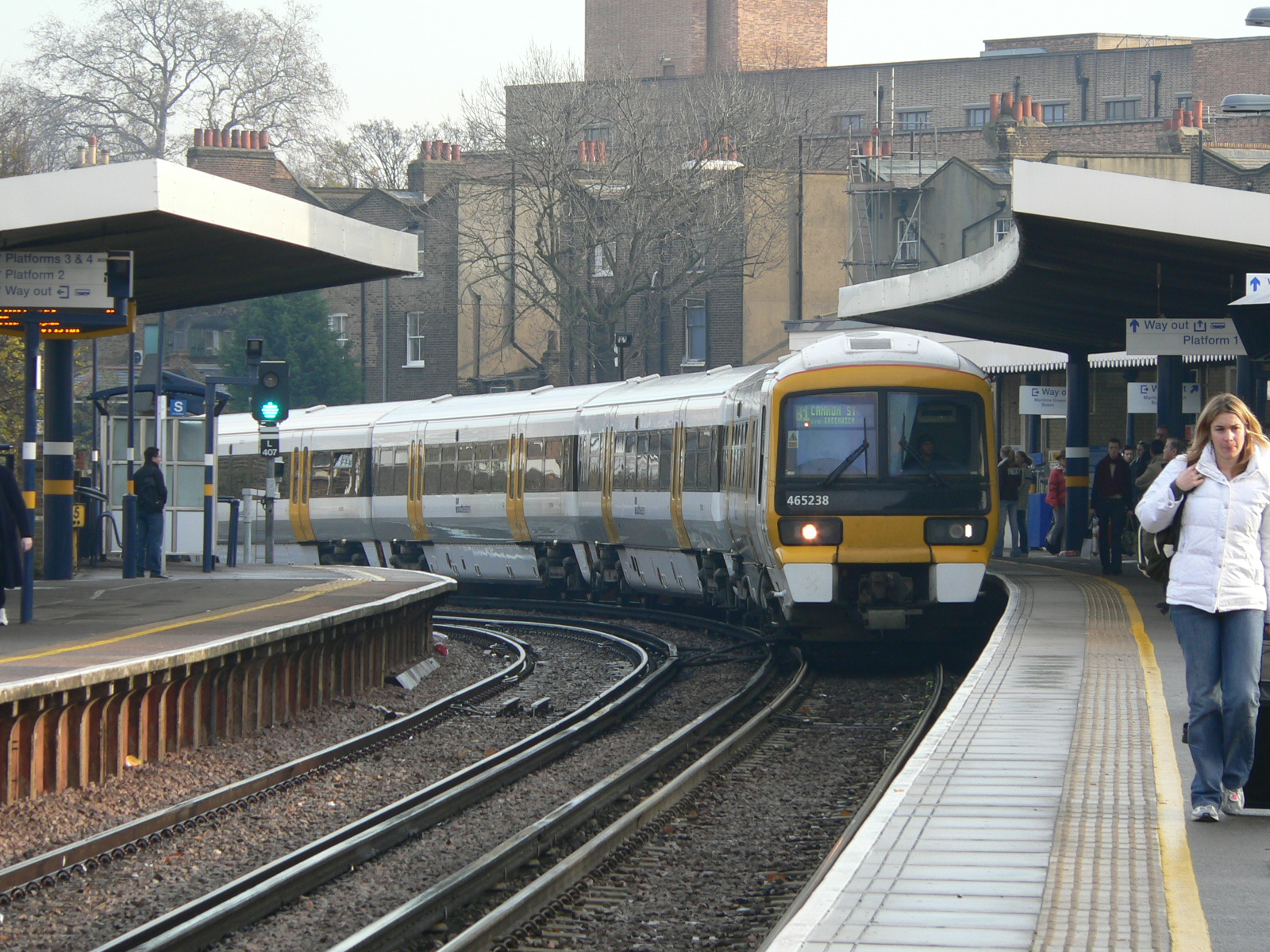 South Eastern Trains Class 465 EMU 465238 pulls into platform 2 of Greenwich station in south-east London with a service to London Cannon Street.